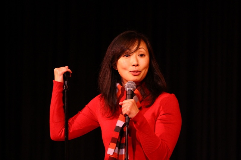 On stage at the Comedy Store